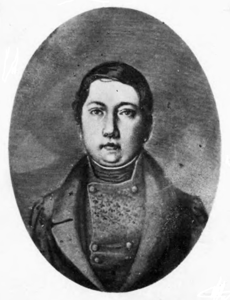 Czech priest Jan Jindřich Marek (1803–1853), known also as poet and writer Jan z Hvězdy, on portrait from his youth